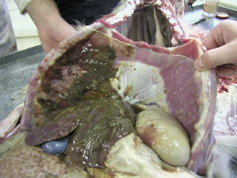 Goat infected with Fascioloides magna: adhesions and fibrin between liver and diaphragm, black pigmentation